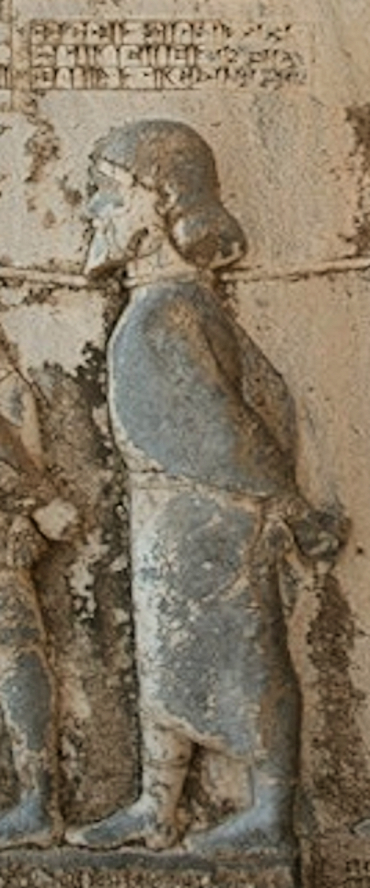 Behistun relief Frada